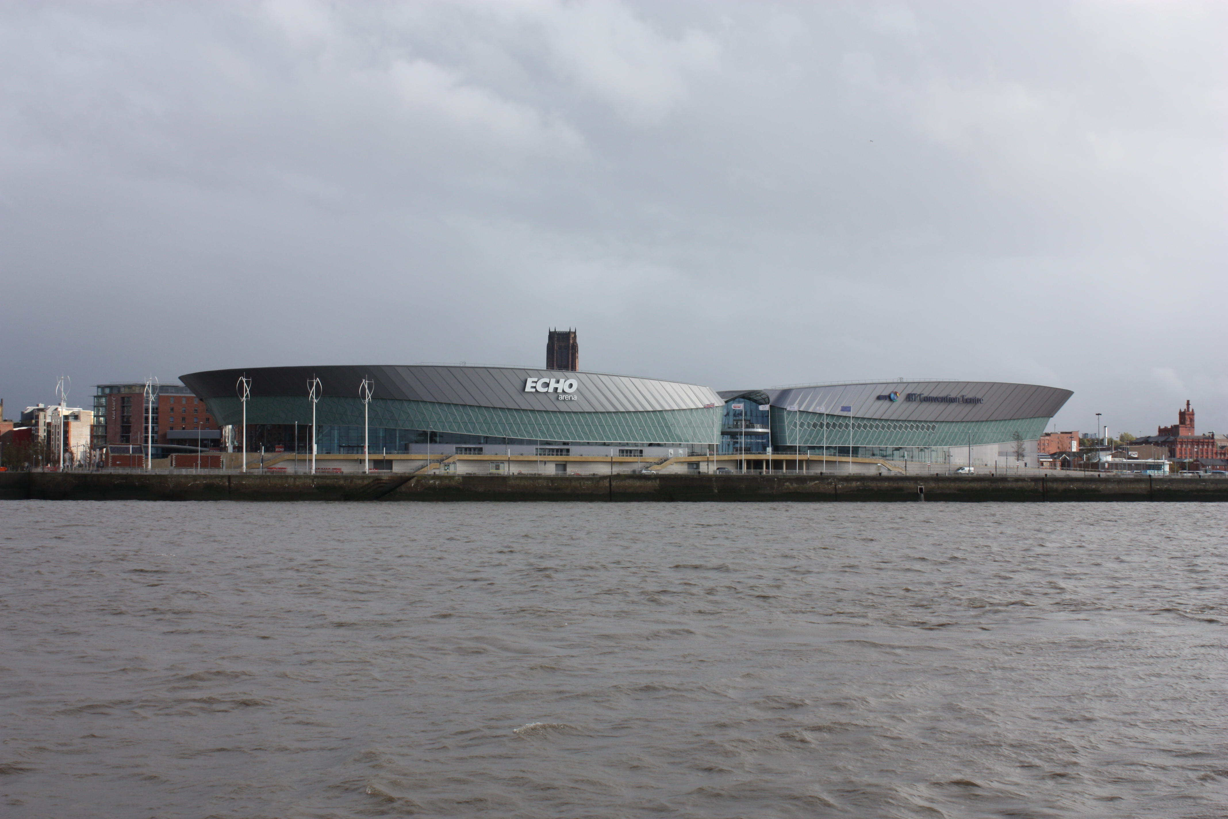 A view of the Liverpool Echo Arena from the River Mersey.